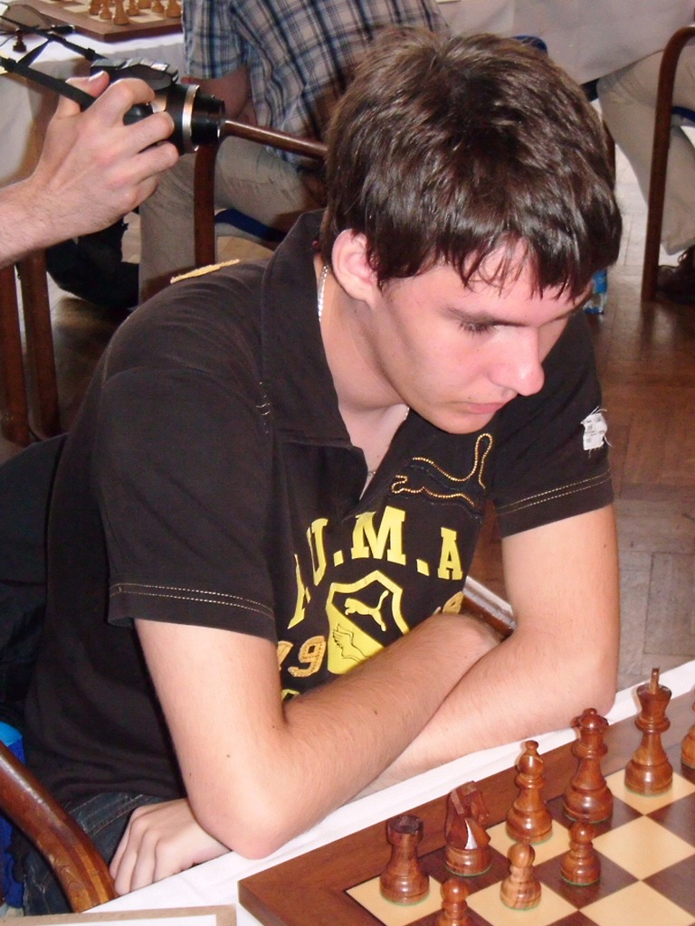 Jan Krejci playing in the Olomouc Chess Summer 2010 in Olomouc (Czech Republic)